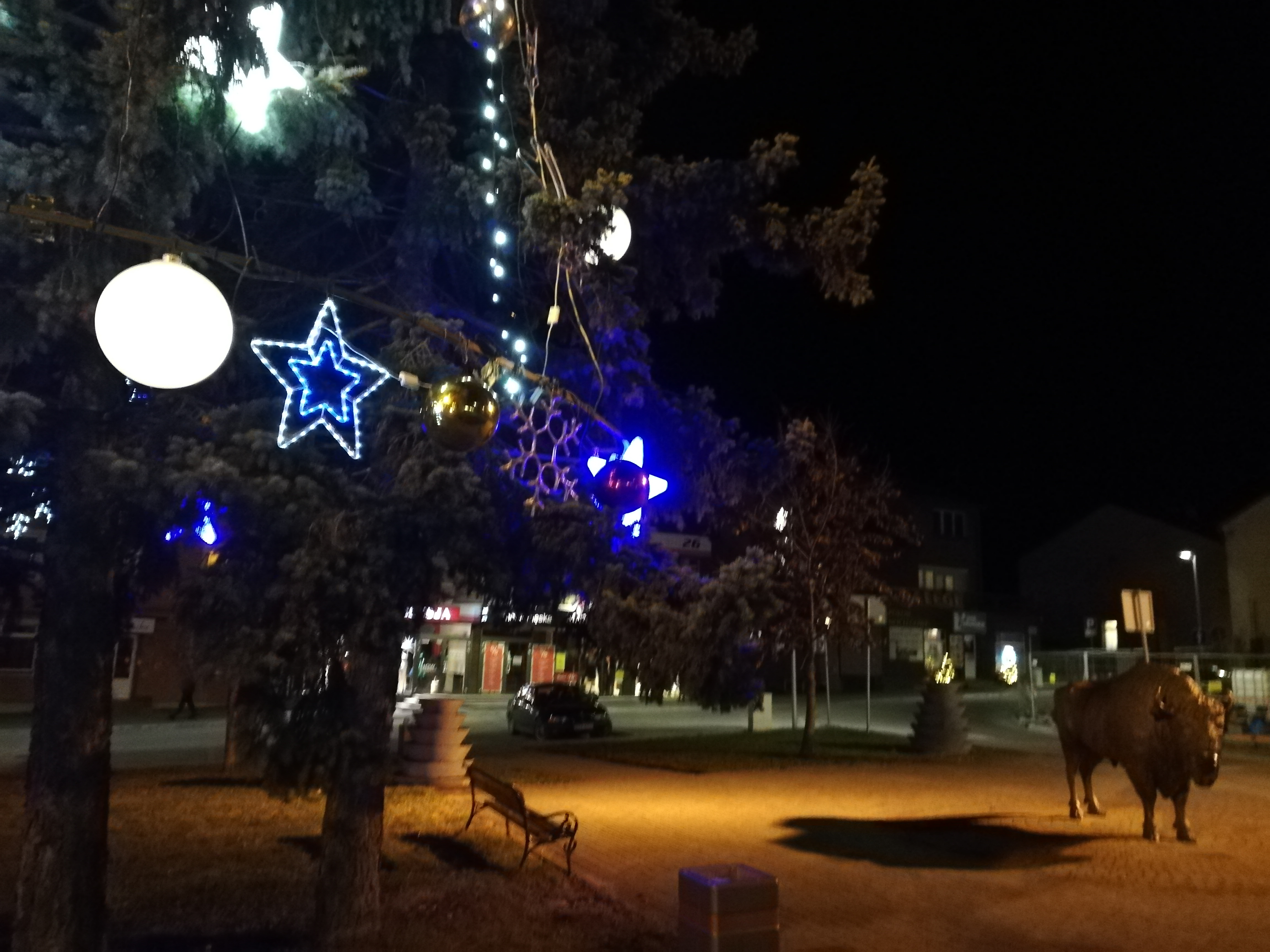 European bizono en Zambrow 2